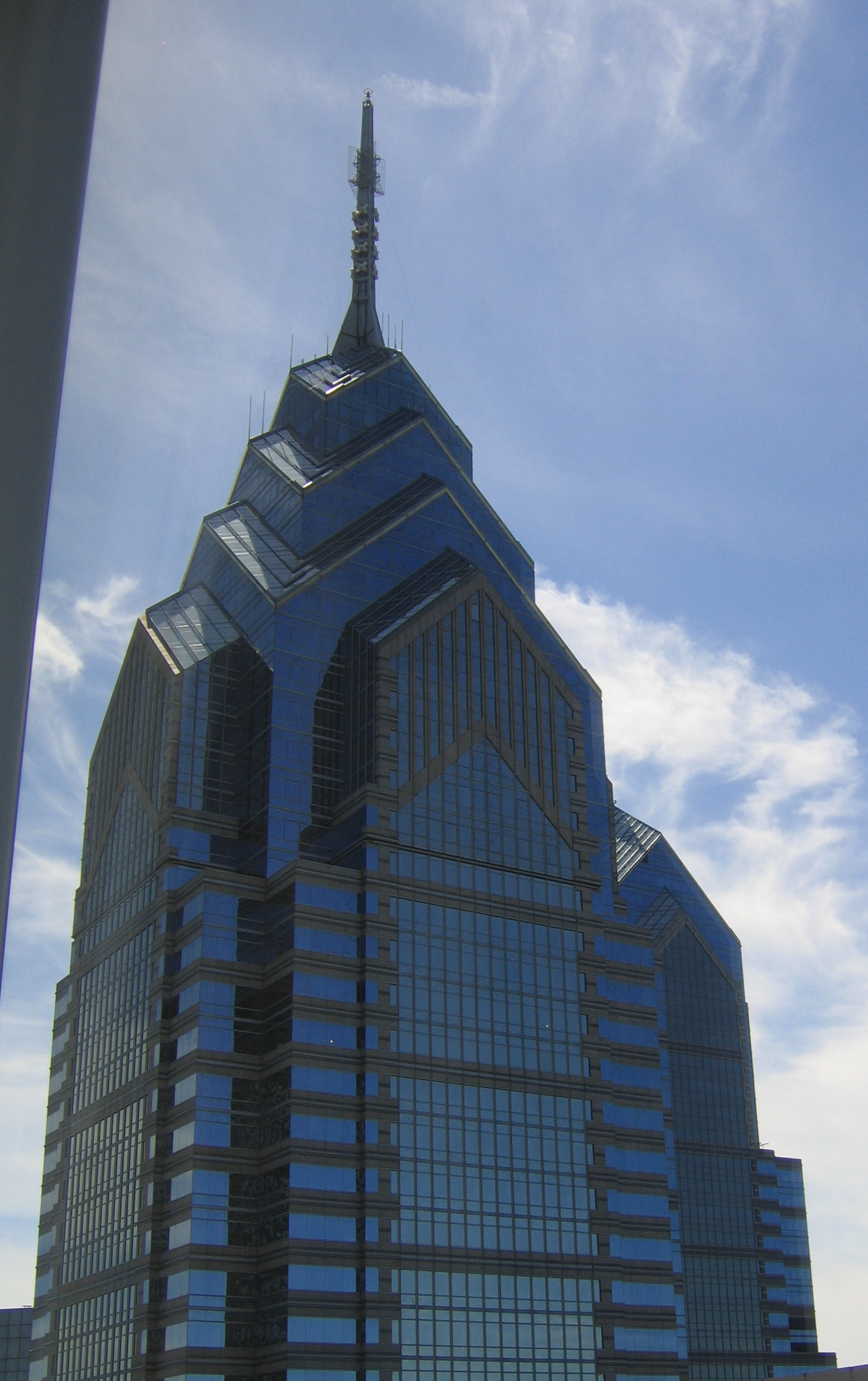 One Liberty Place in Philadelphia (west elevation). Photographed by User:Spikebrennan on July 21, 2007. Category:Images of Philadelphia, Pennsylvania